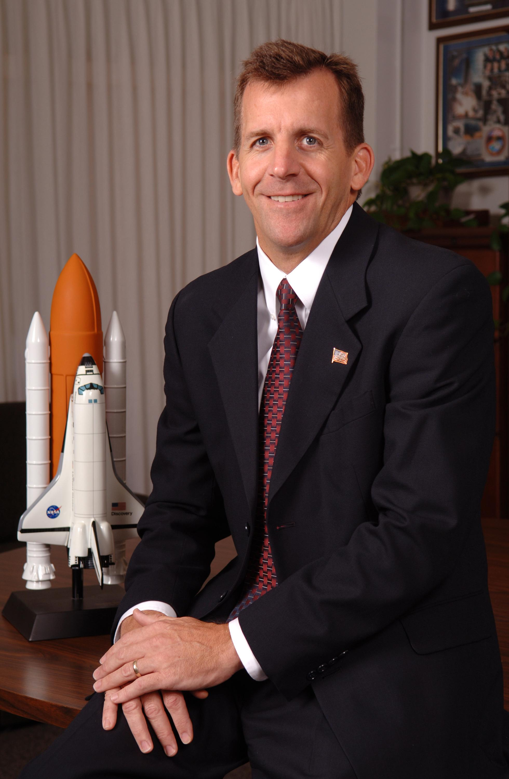 Official portrait of LeRoy E. Cain, who has served as the manager of Space Shuttle Launch Integration at NASA's Kennedy Space Center since November 2005.